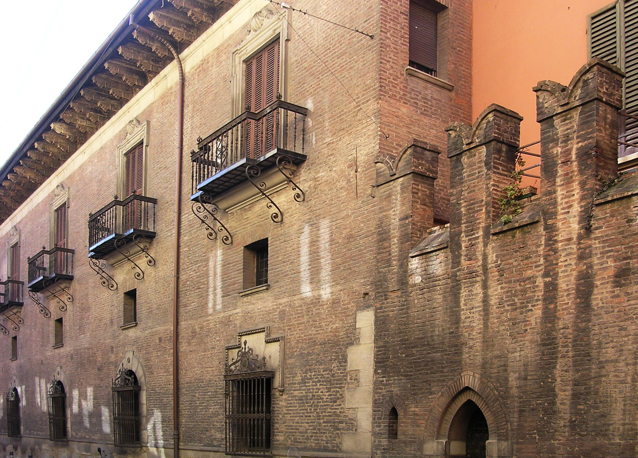 The Collegio di Spagna, a historic university college, originally founded to support Spanish students in Bologna, Italy.